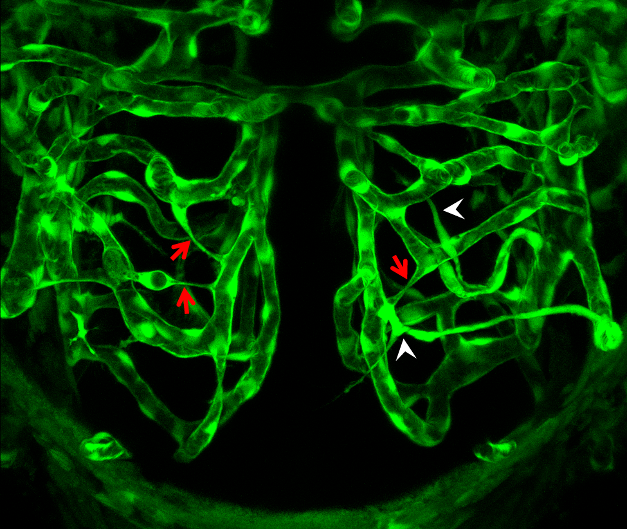 Brain blood vasculature as a function of blood flow. Developing brain blood vasculature undergoes not only angiogenic sprouting (arrowheads white), but also extensive vessel pruning (arrows red) driven by blood flow.